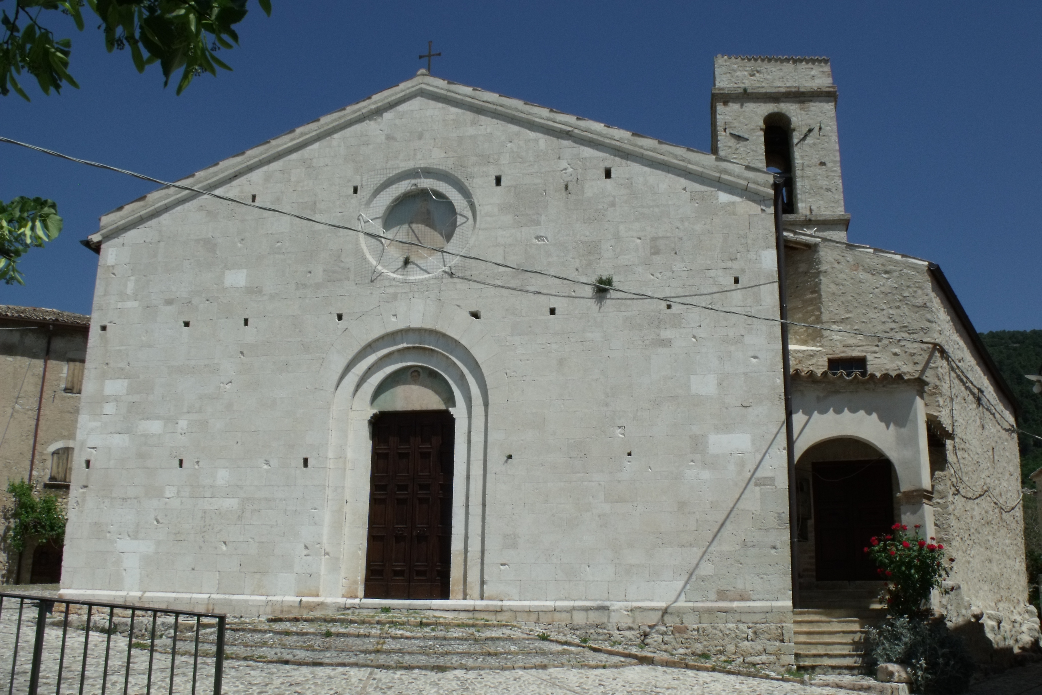 Church of San Donato in Campello Alto, Campello sul Clitunno, Province of Perugia, Umbria, Italy